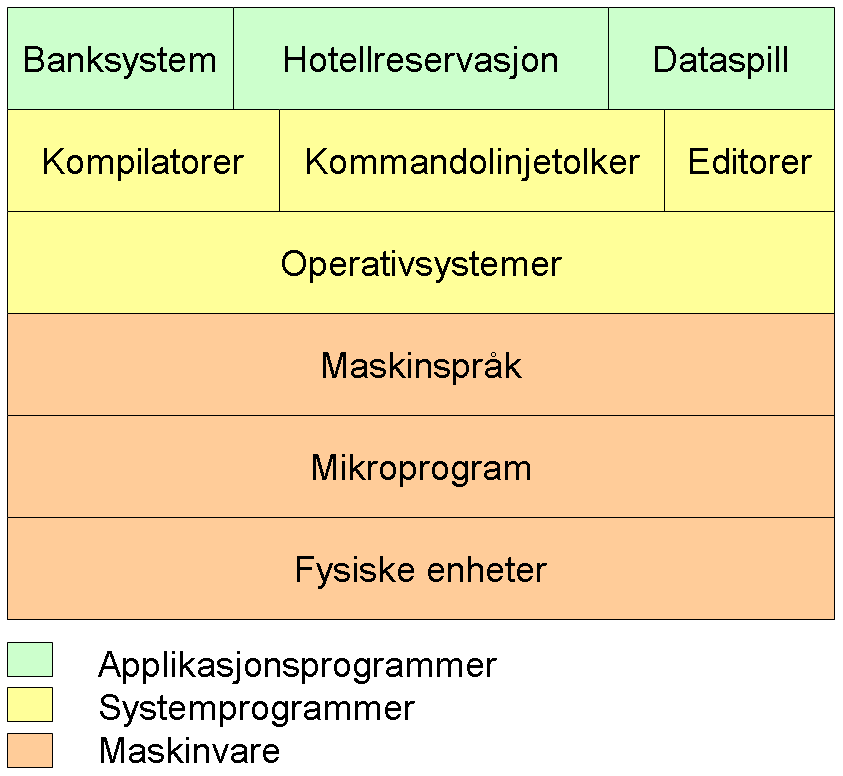 Norwegian language diagram of a computer system